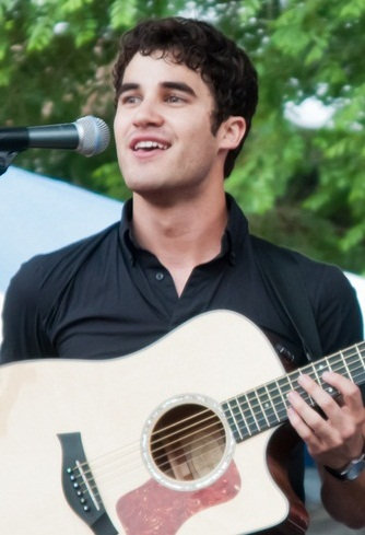 Darren Criss at Chicago concert 2011